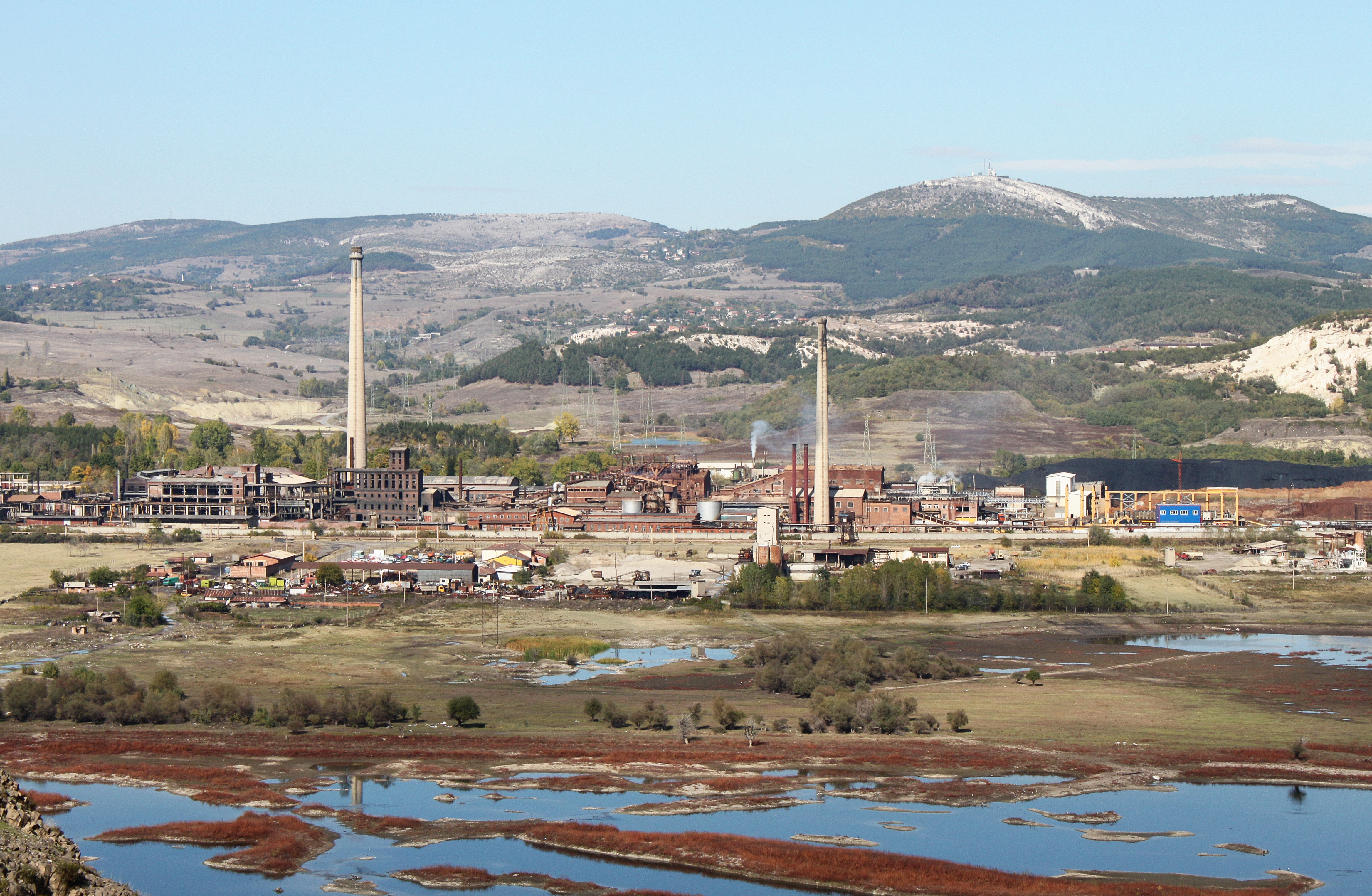 Kardzhali , Bulgaria